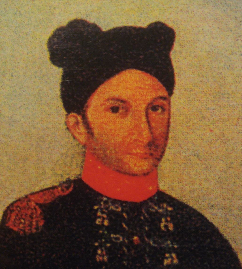 Jean-Baptiste_Chaigneau_portrait_1805